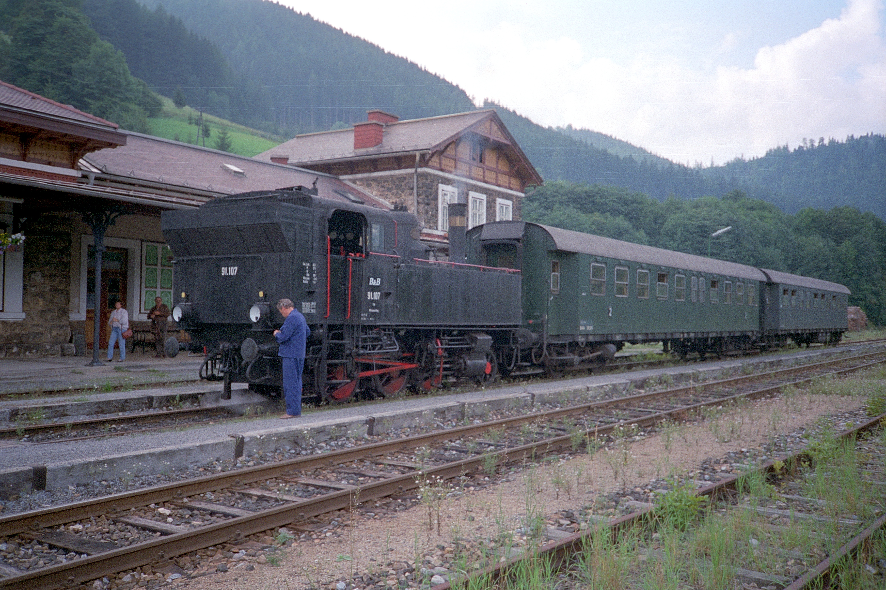 Ex-ÖBB 91.107 with special trian at Neuberg station.